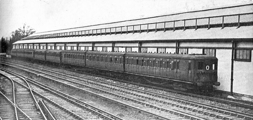 Multiple-Unit Electric Train and Car Sheds at Orpington, S.R. Two three-car "sets" with two trailer coaches between Photo: Southern Ry.